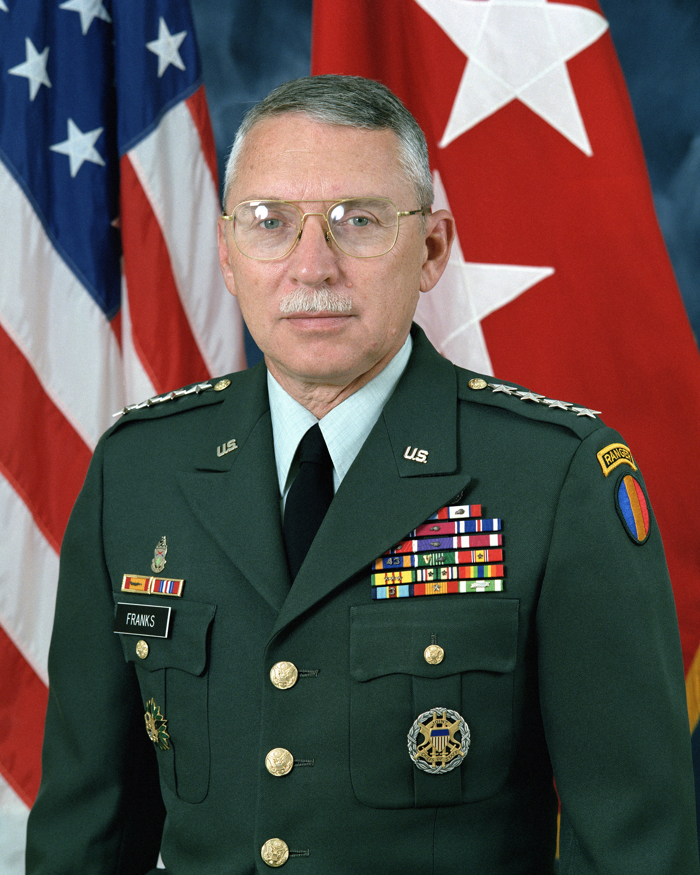 General Frederick M. Franks from [1]